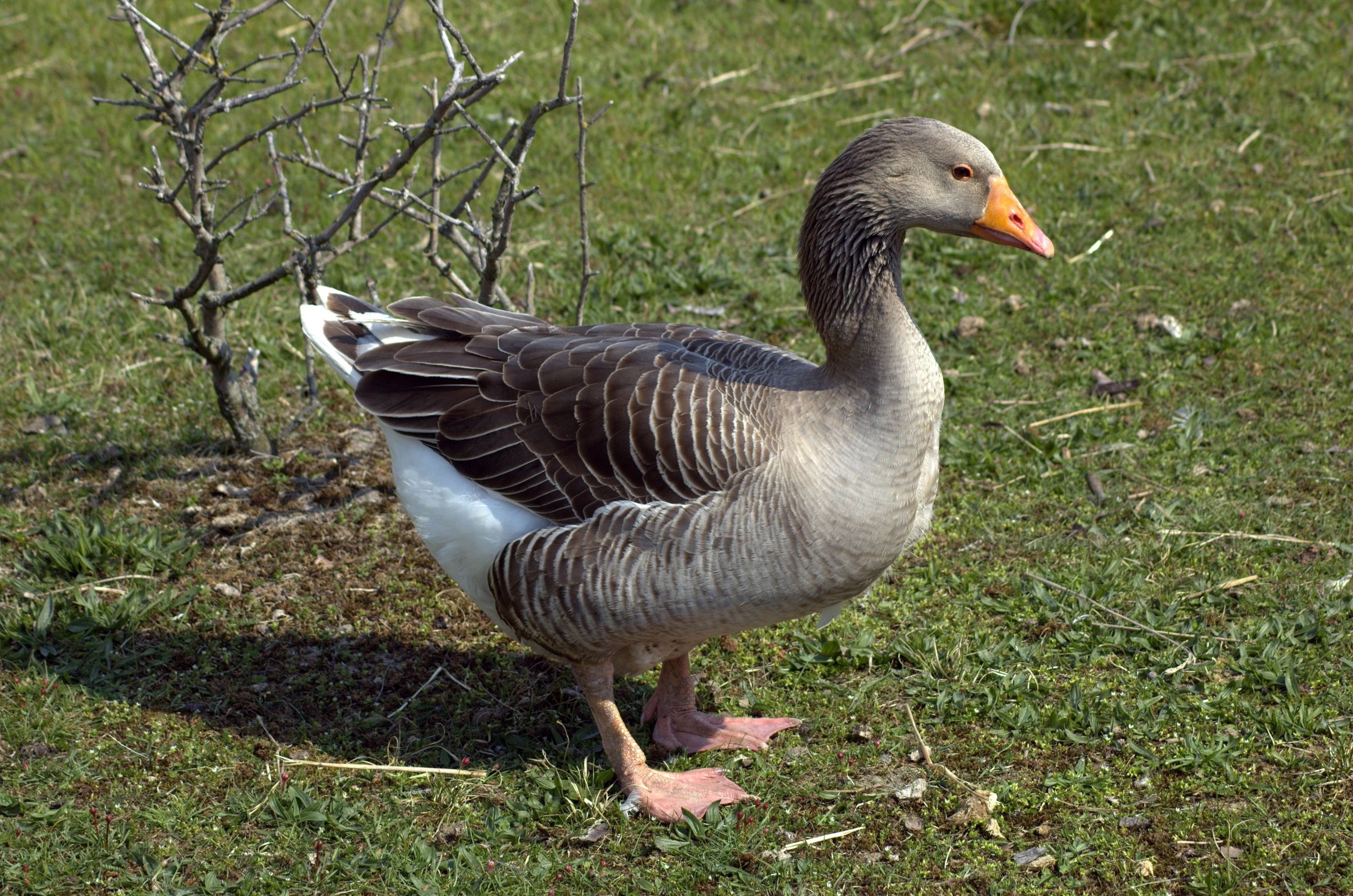 A danish domesticated greylag goose. Location: Shot in a goose pen next to Skagen lighthouse in the north of Denmark. Camera: Nikon D50 using a 70-300mm lens (at 90mm when the photo was taken).